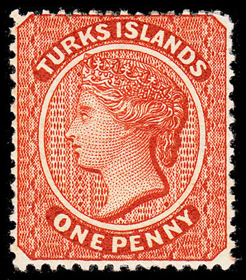 The first one penny stamp of the Turks Islands from 1867.